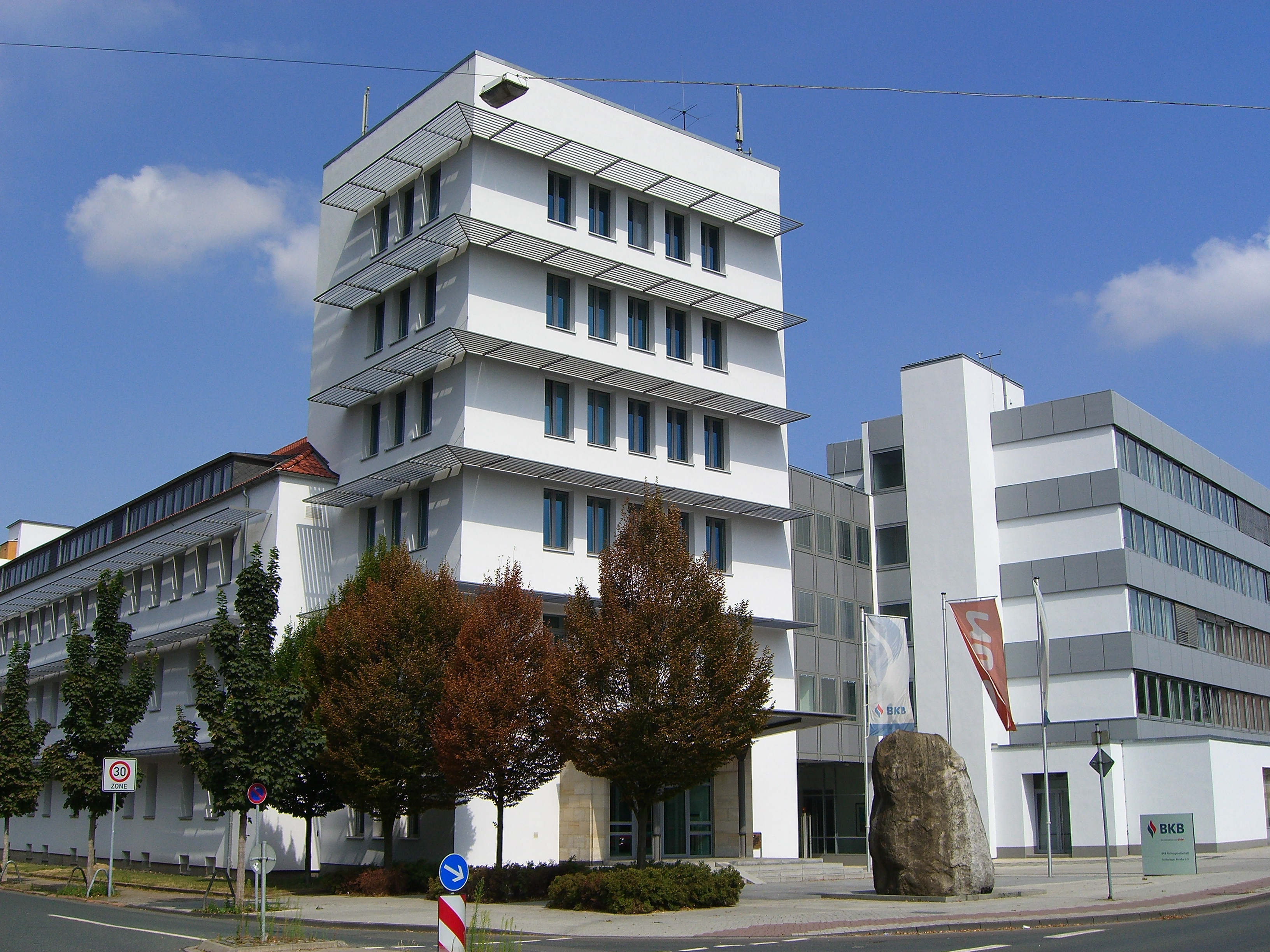 head office of the 'BKB' (energy company) in Helmstedt